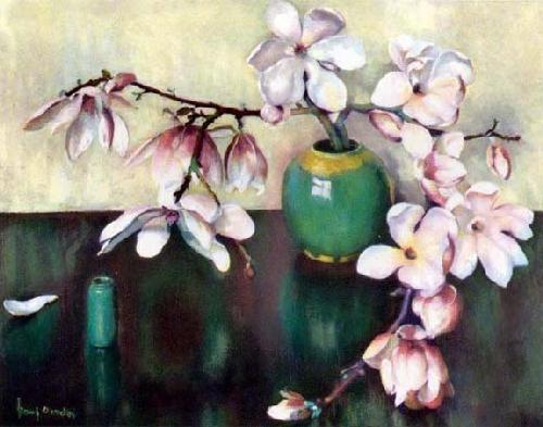 "Magnolias" by Frans David Oerder, sold to the New York Graphic Society